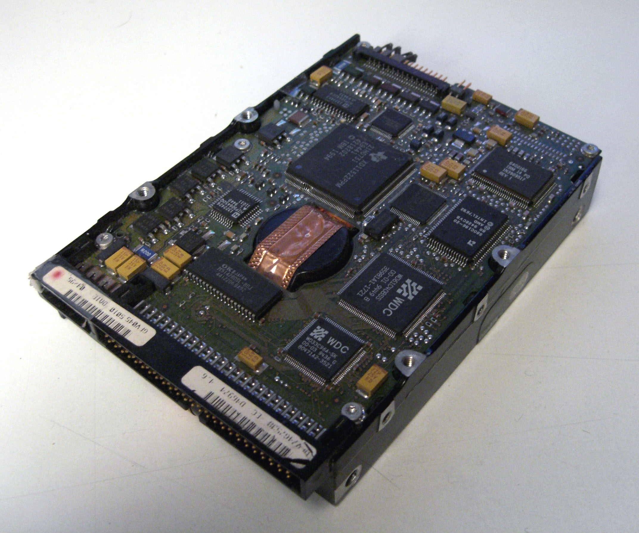 Old IBM SCSI Hard Disk (1994).